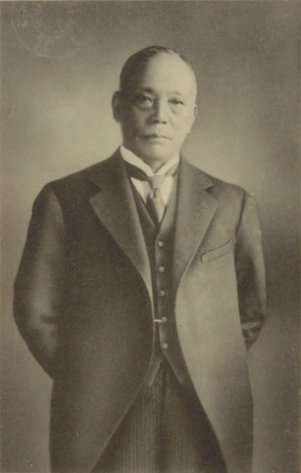 Portrait of Yamamoto Jotaro (山本条太郎, 1867 – 1936)